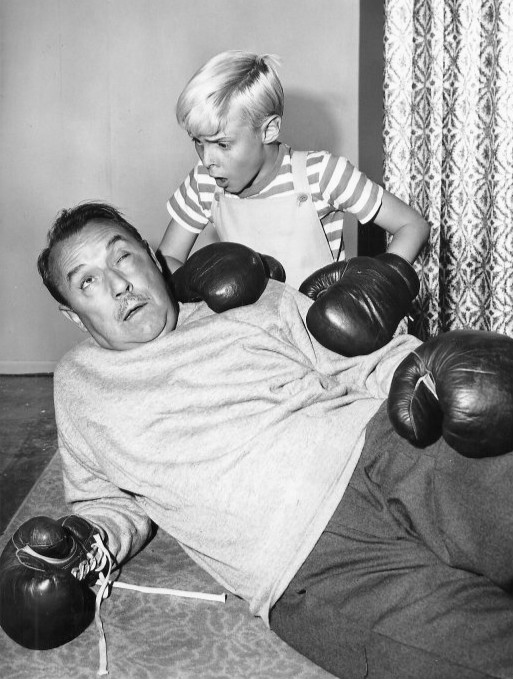 Photo from the television program Dennis the Menace. Mr. Wilson (Gale Gordon) gives Dennis (Jay North) boxing lessons and forgets to duck; Dennis knocks him out.